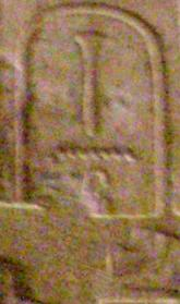 Royal cartouches 9 through 14